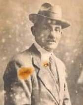 passport photo of Andrea Vassallo (architect), 1919